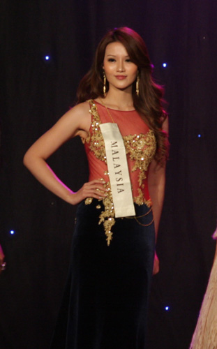 Miss Malaysia 2008 Soo Wincci during Miss World 08